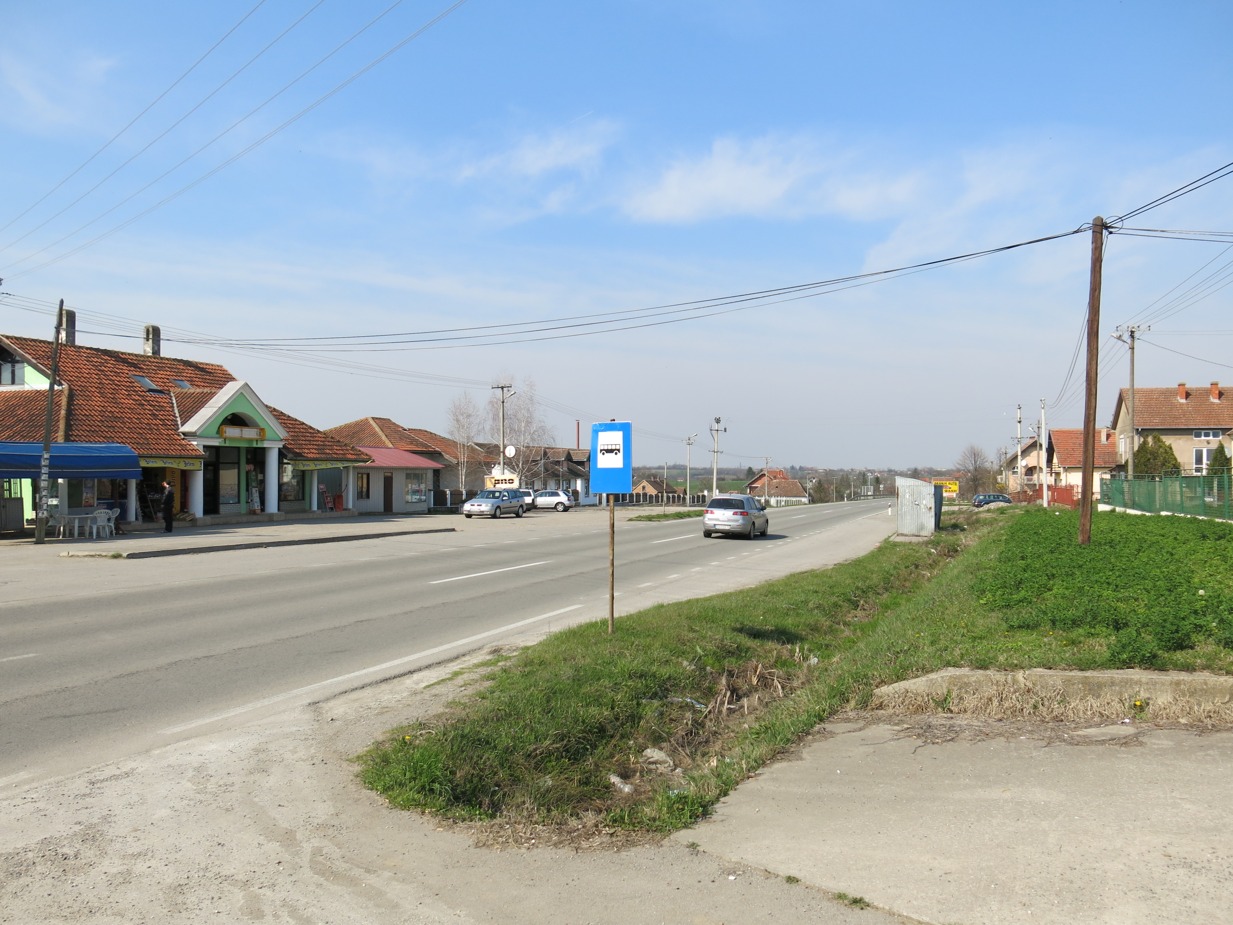 Riđake, Street